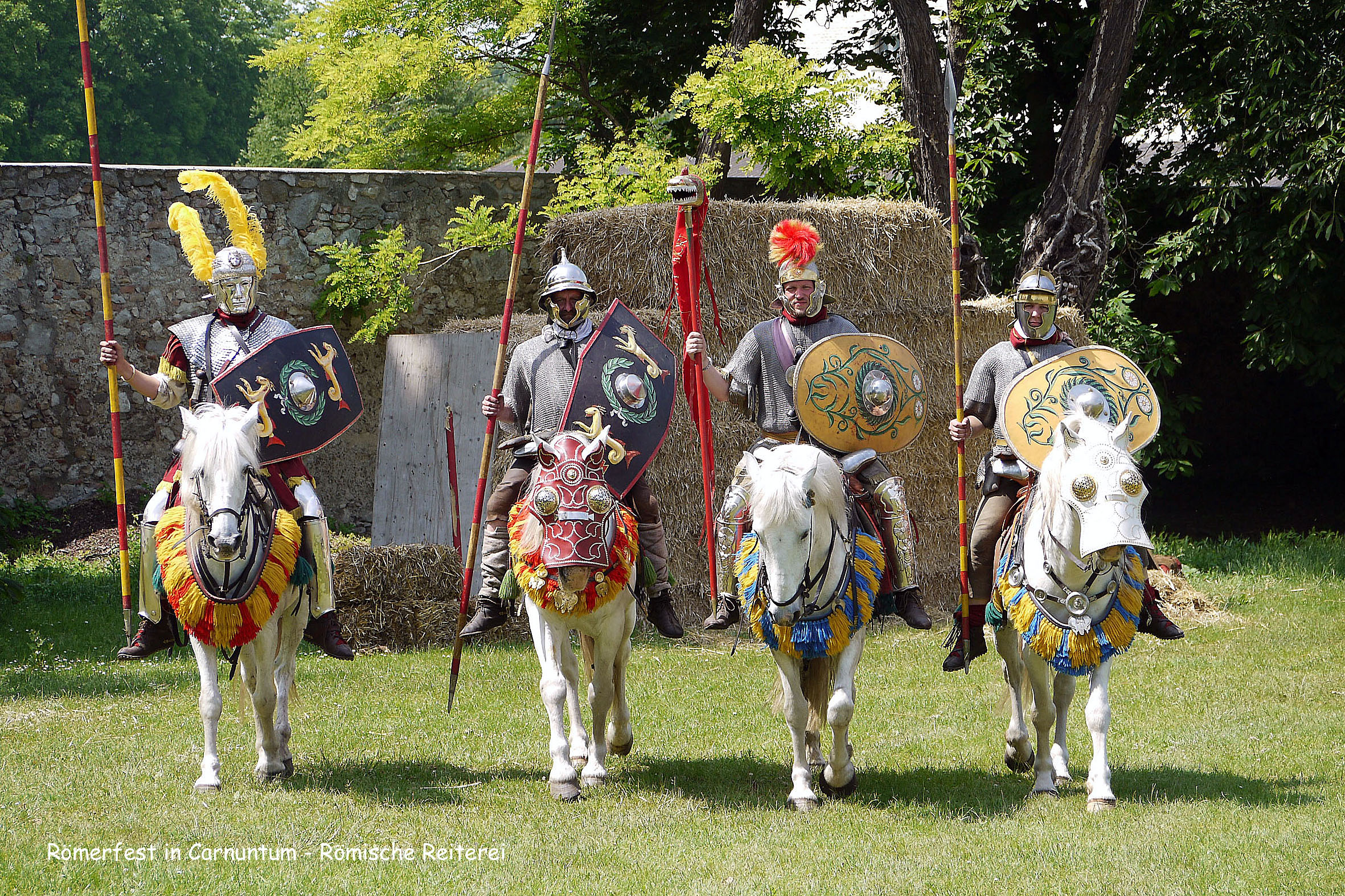 Roman cavalry, Roman festival at Carnuntum, Lower Austria near Vienna